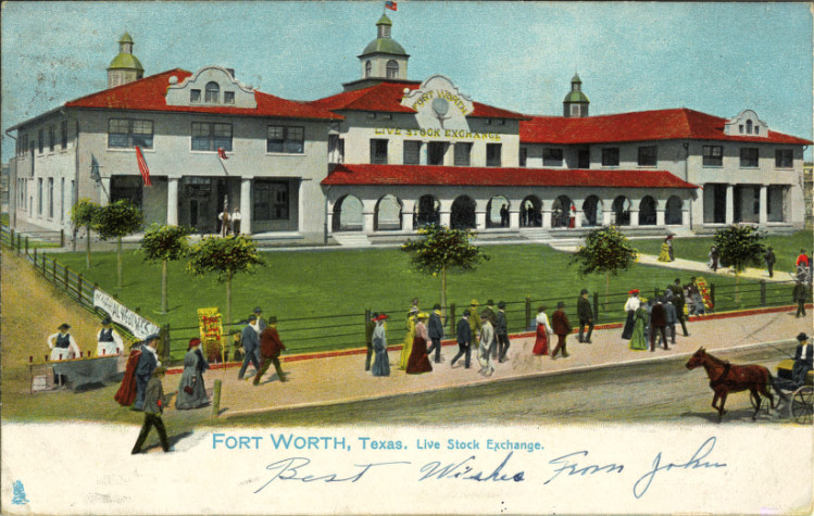 Live Stock Exchange building, Forth Worth, Texas